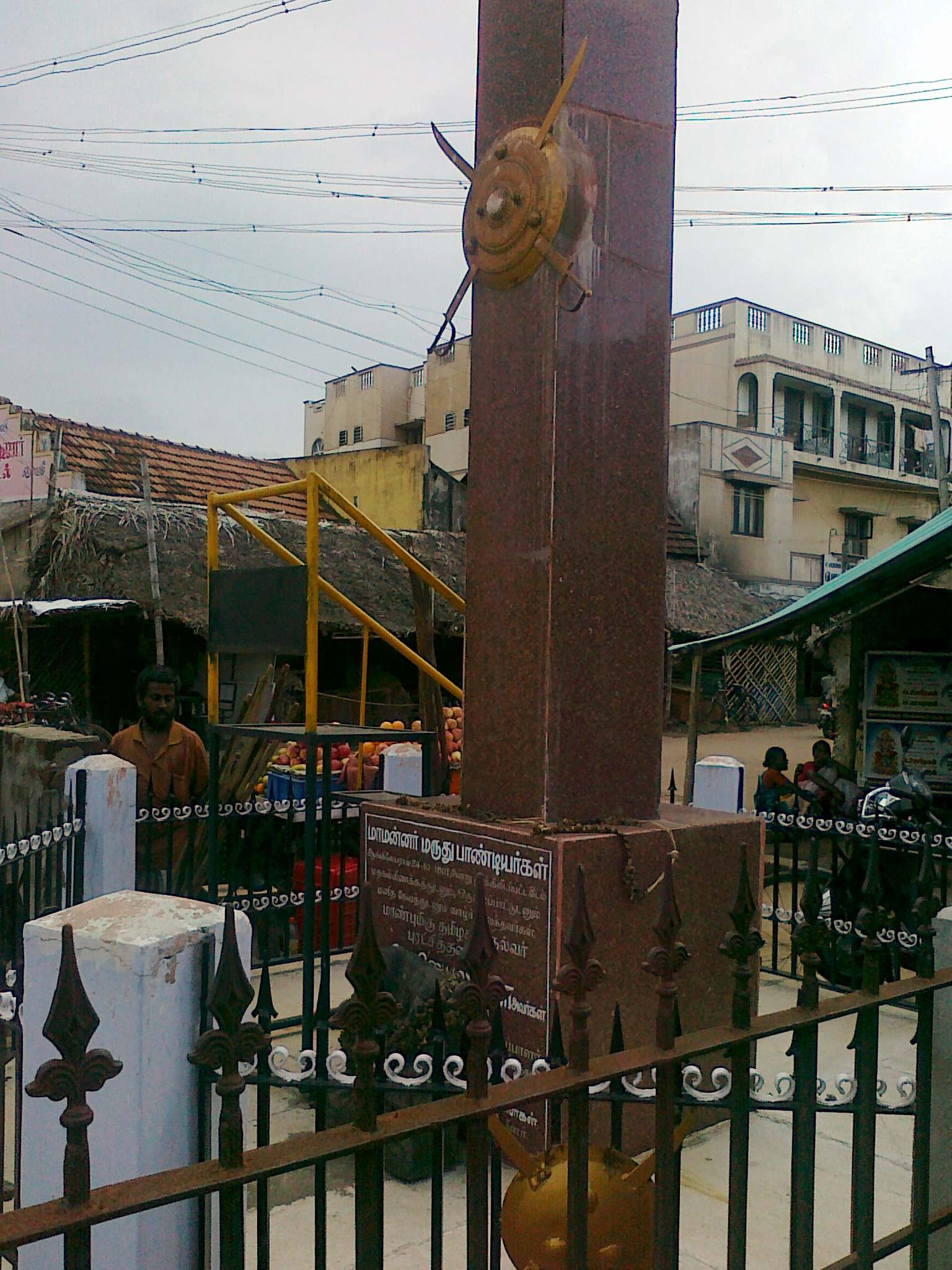 THIRUPPATHUR-SIVAGANGAI DISTRICT